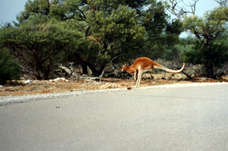 Kangaroo is crossing a highway in Western Australia just in front of our car. The picture was taken by Brocken Inaglory